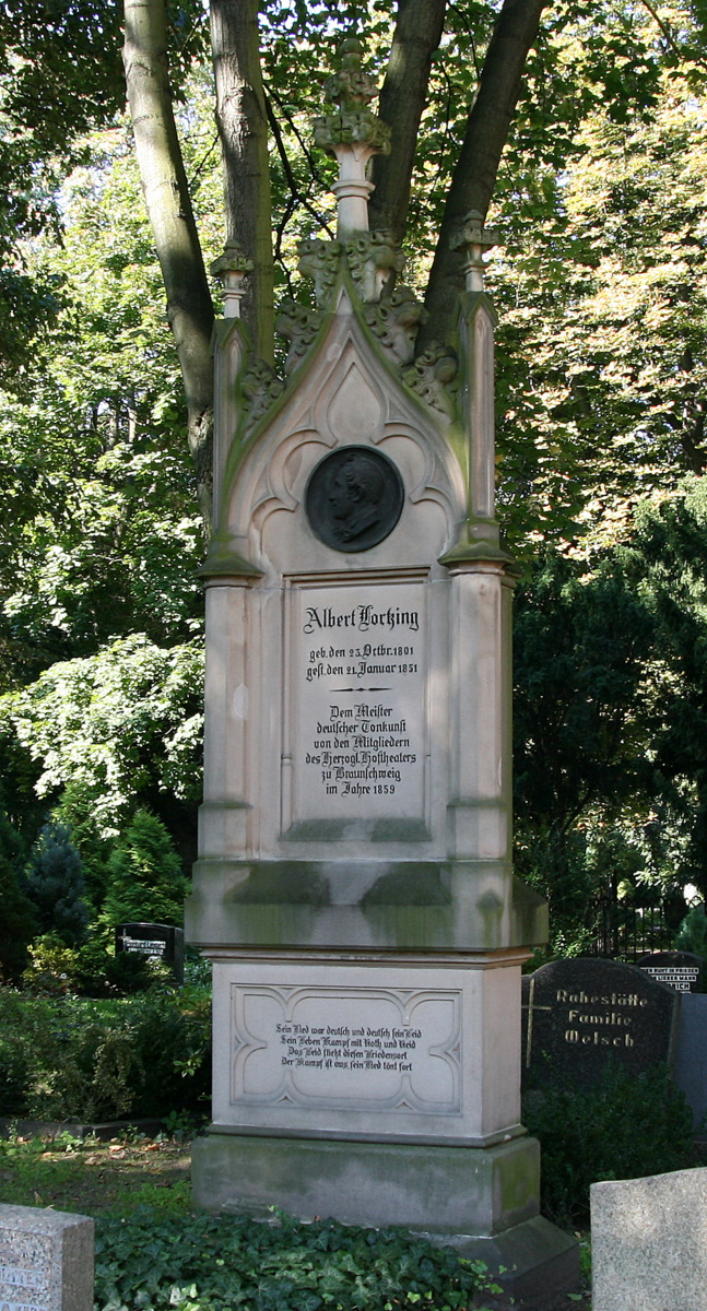 Grave of Lortzing in Berlin